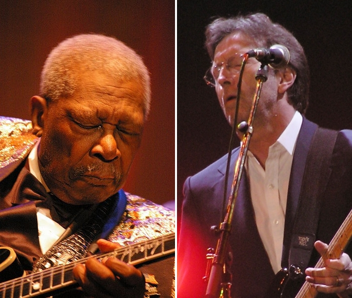 B.B. King (left) in July 2009, and Eric Clapton in January 2005